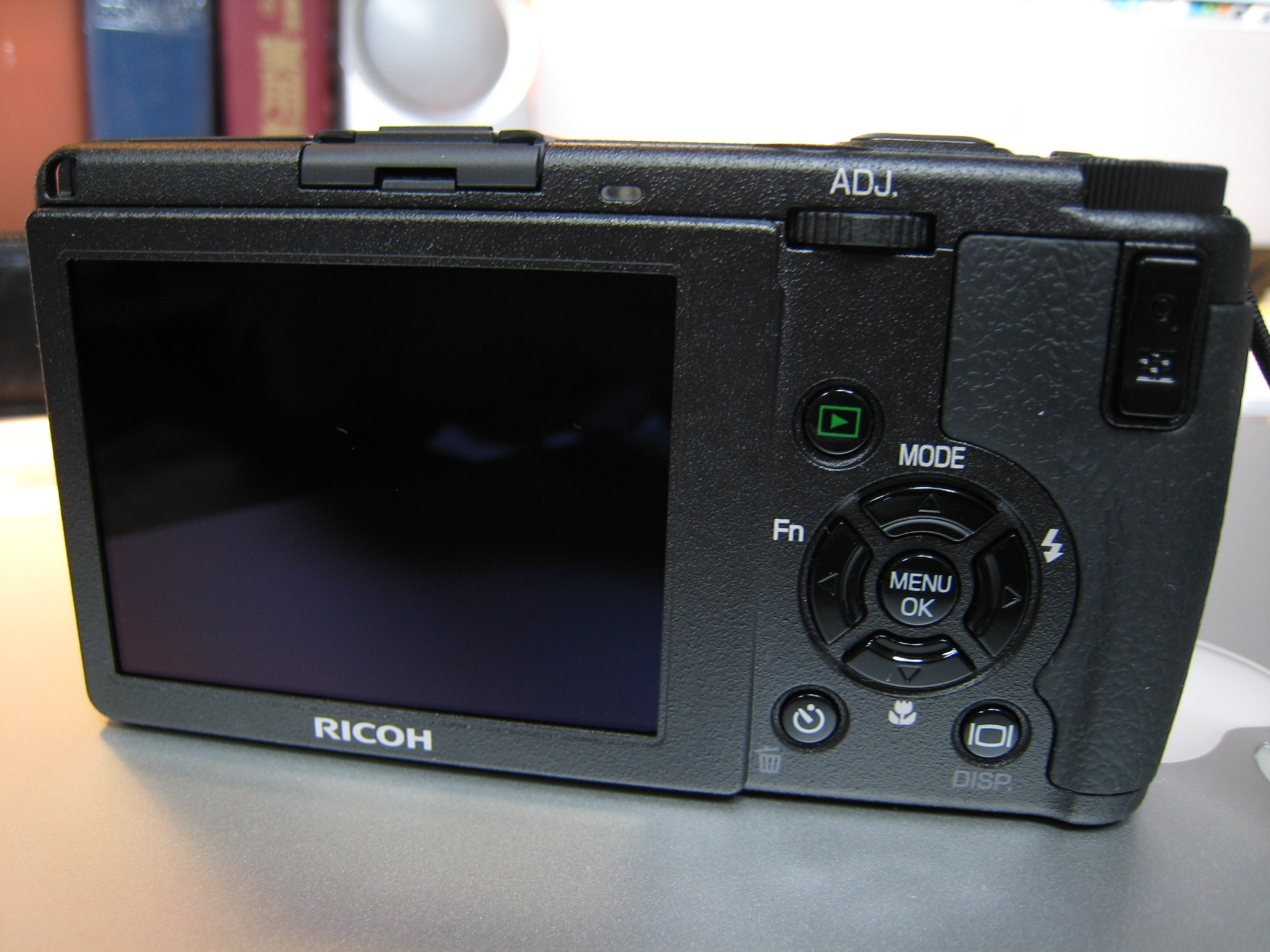 Ricoh GR Digital II camera from the back